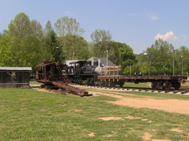 The Little River Railroad and Lumber Company Museum in Townsend, Tennessee. The red machine on the left is a logging skidder, used to load logs onto flat cars. A 70-ton Shay engine, used to pull a typical logging railroad, is in the back in the center. A railroad flatcar, which carried the logs, is on the right.